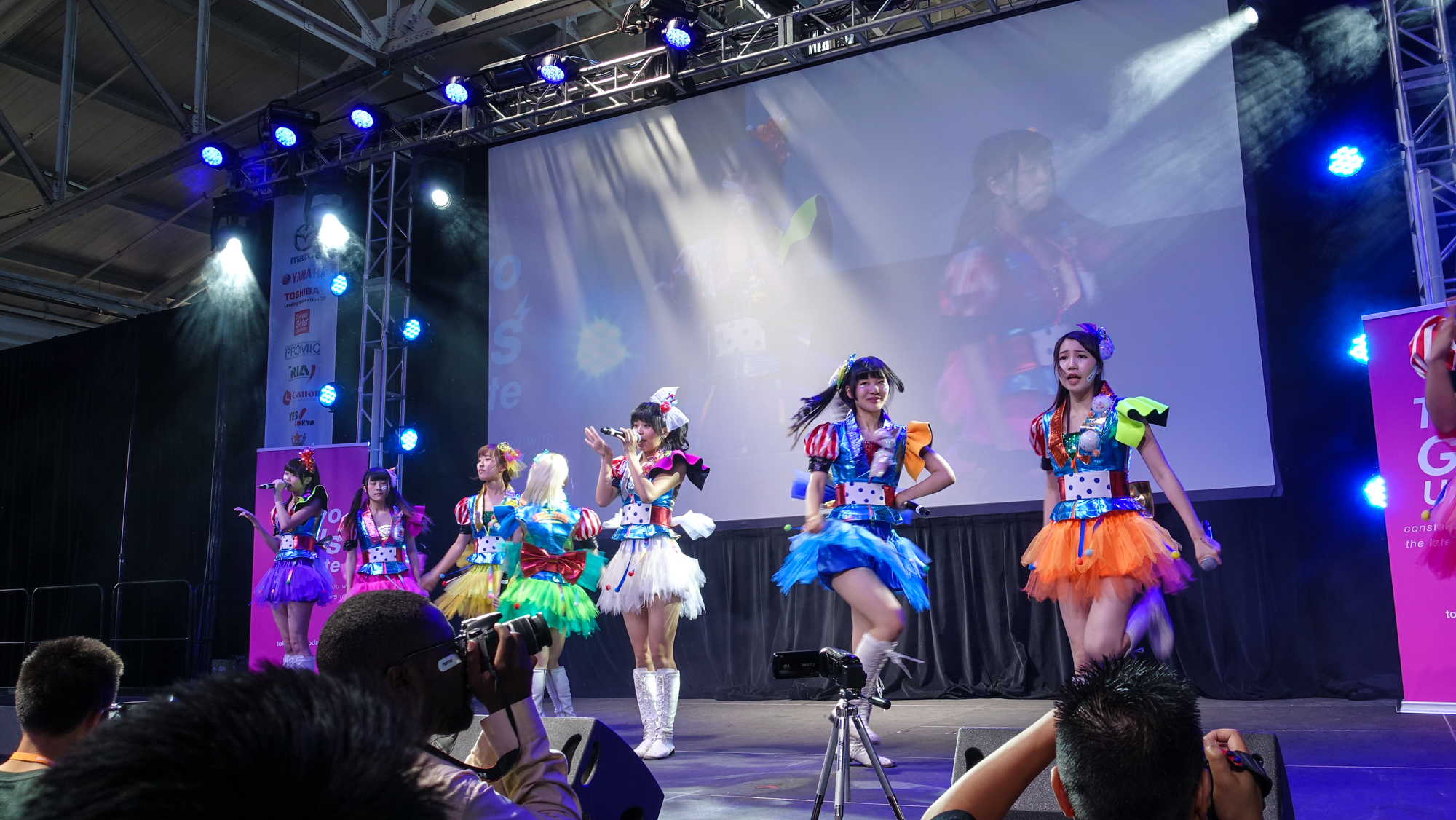 FES☆TIVE at J-pop Summit 2015